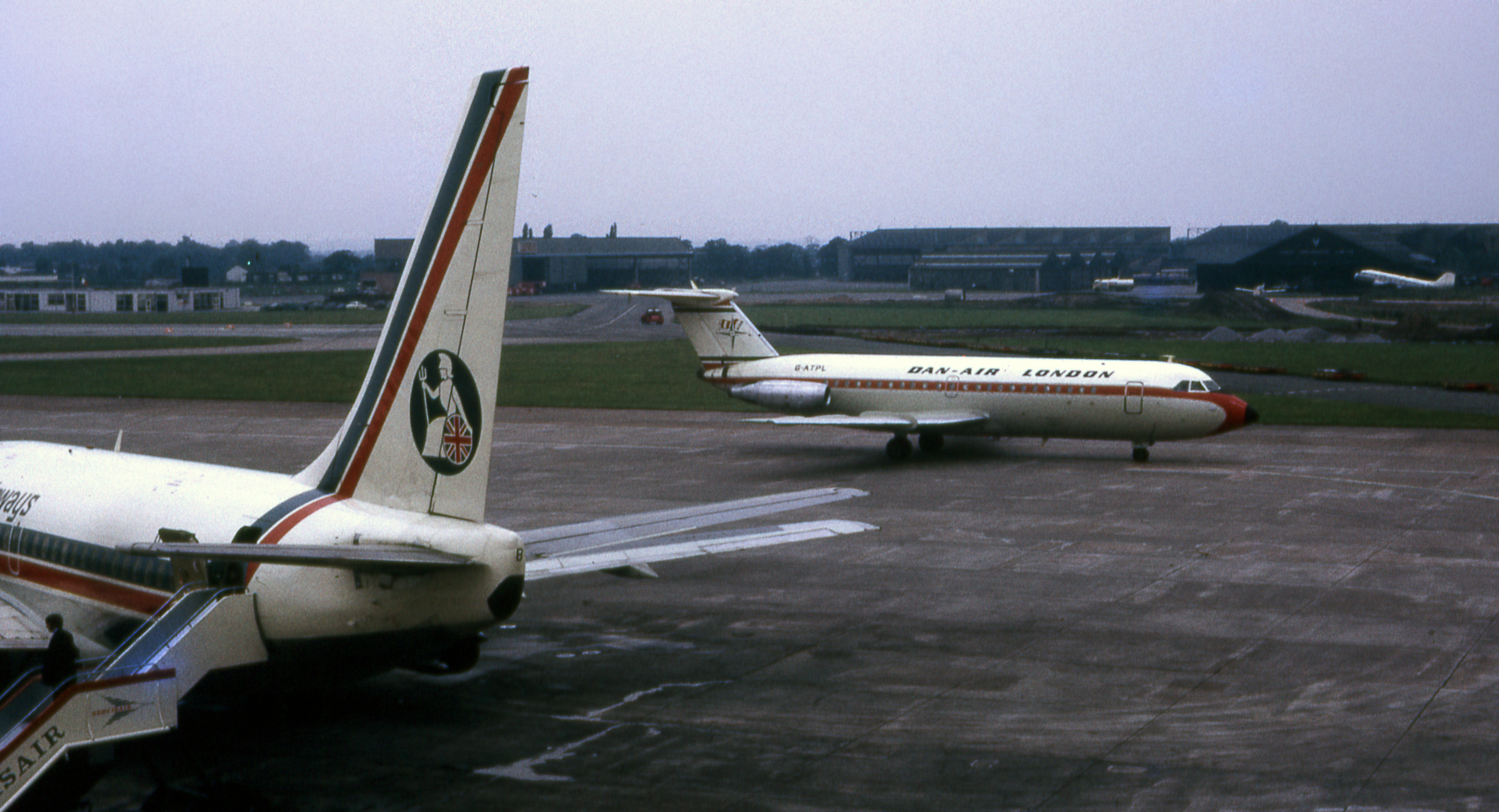 Manchester Airport in 1972. A Britannia Airways Boeing 737 can be seen in the foreground and behind it a Dan Air BAC 1-11.